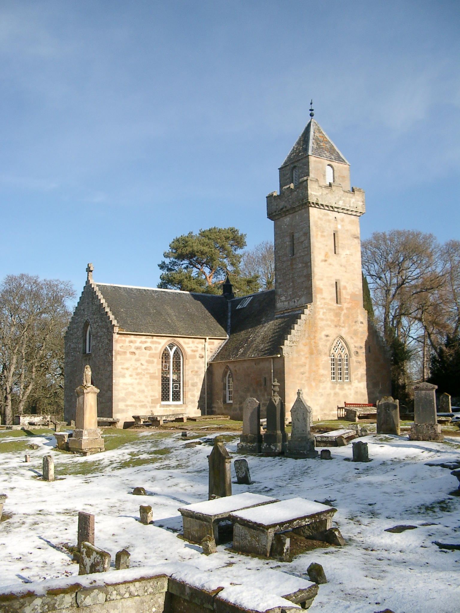 Cawdor Church The small Church of Scotland in the conservation village of Cawdor, taken on a clear winter day Keywords: church, graveyard, Cawdor, Scotland